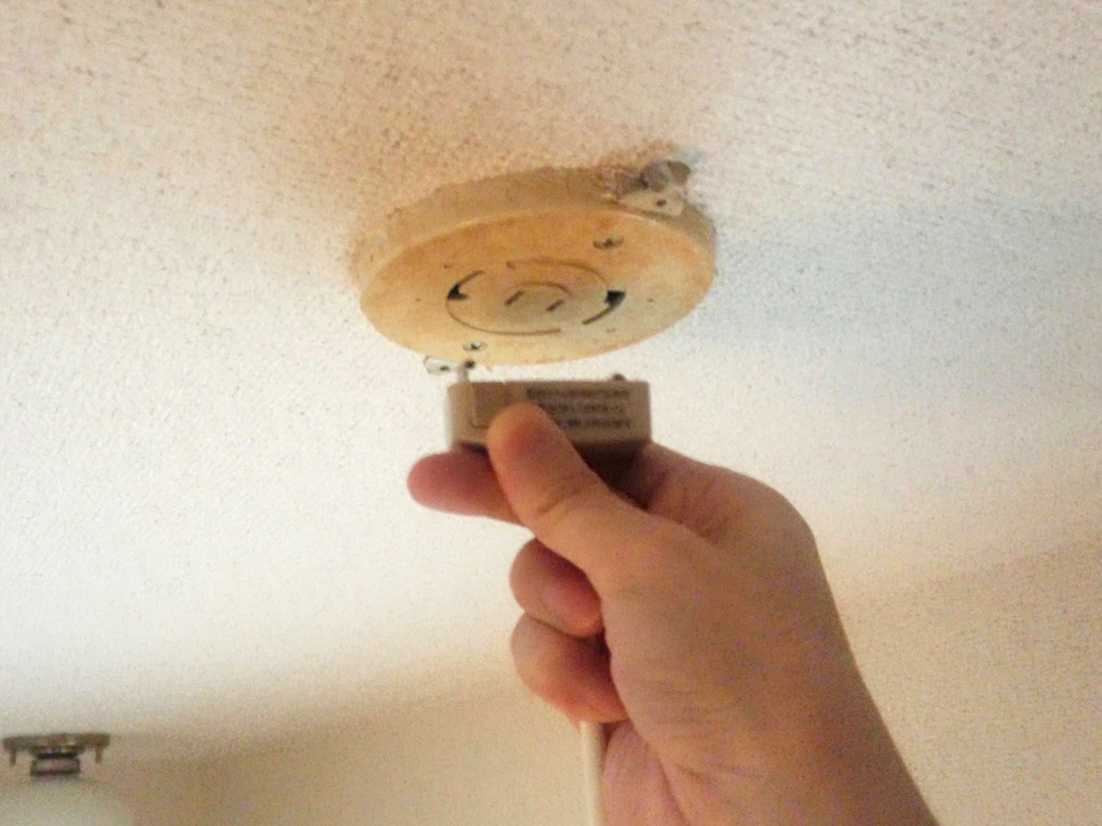 Japanese Ceiling Rosette (Connection fig.1)